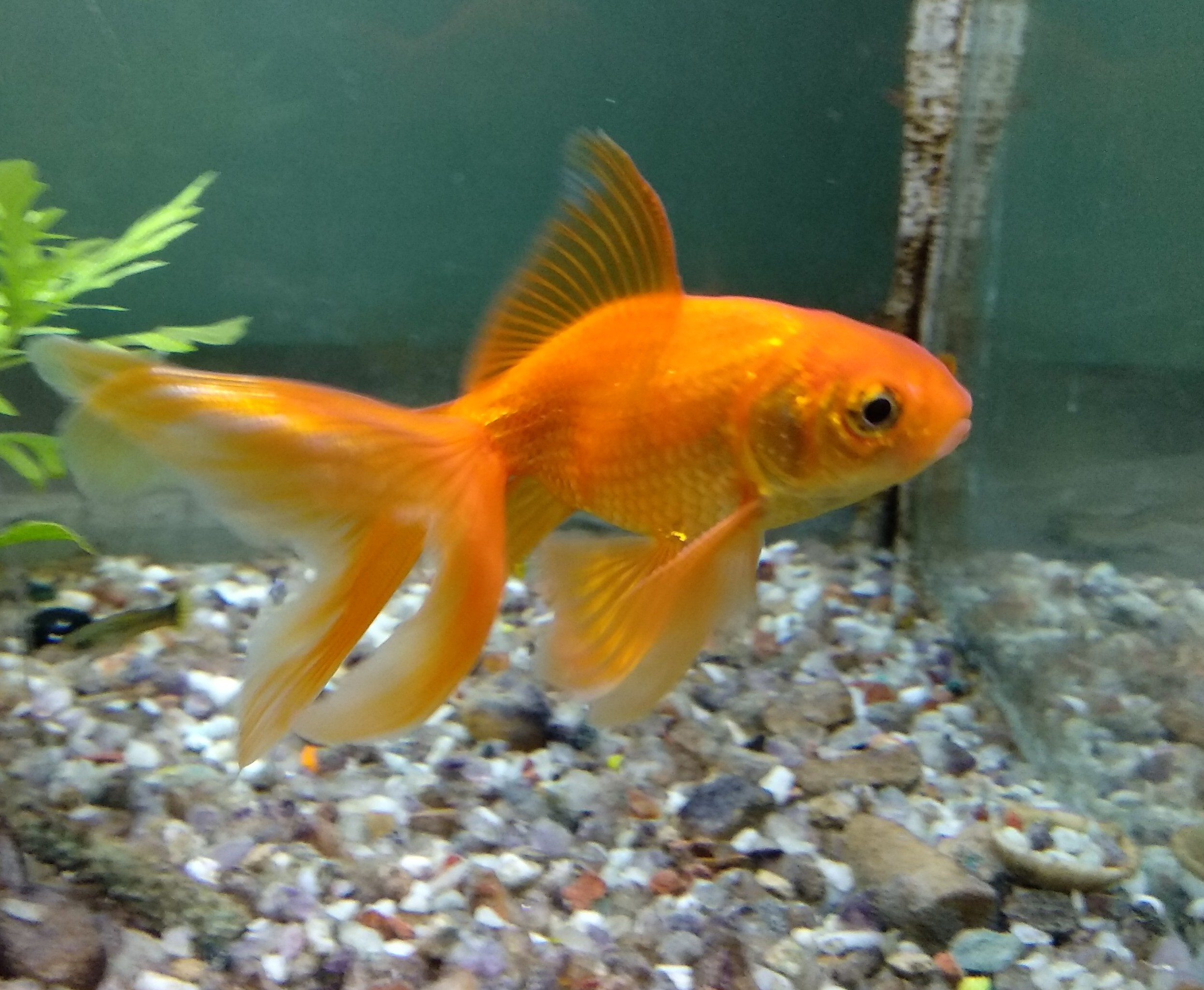 goldfish with fan like long tail. mostly kept by aquarium enthusiastic